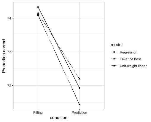 thumb